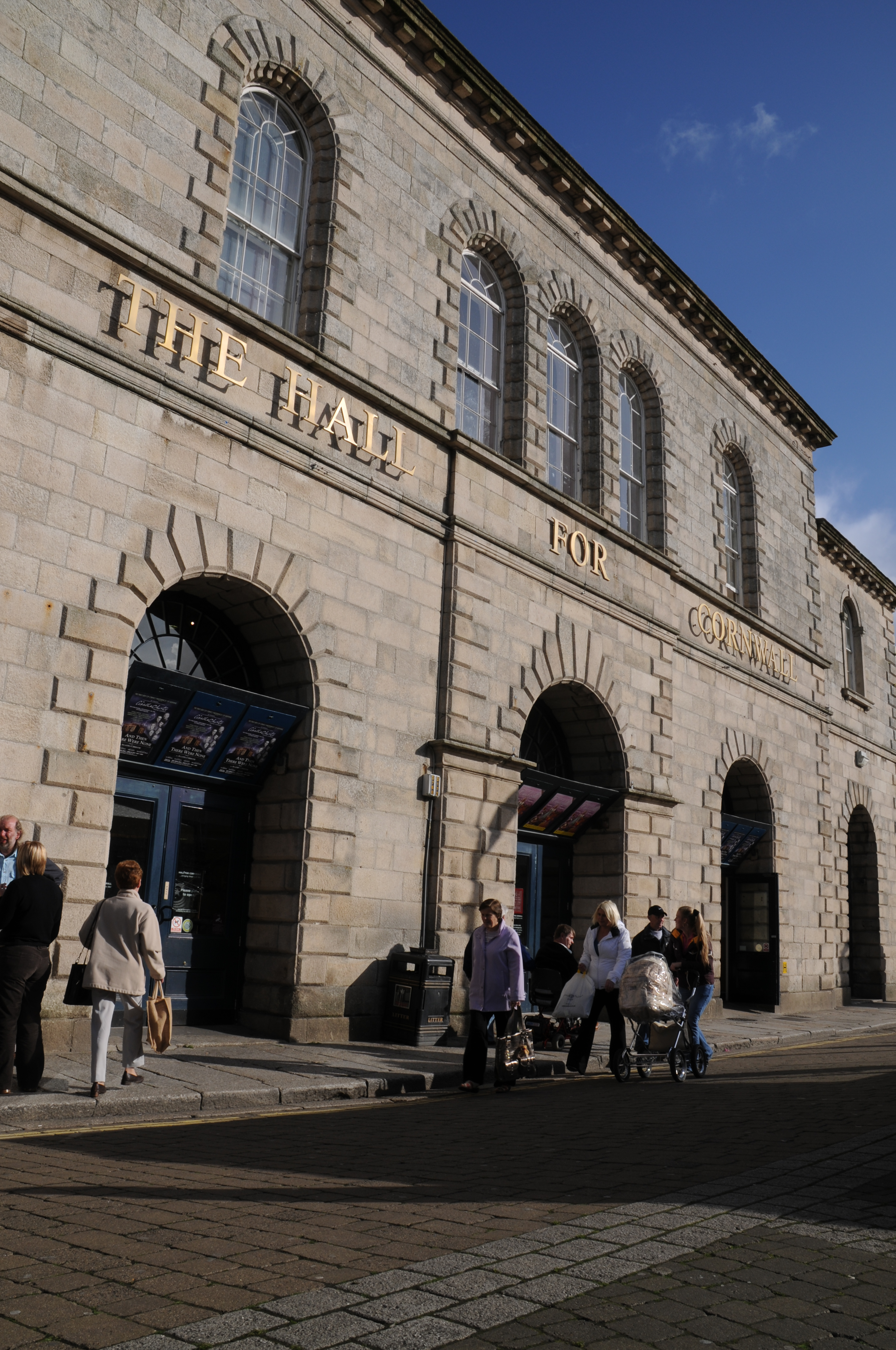 An image of Hall for Cornwall, Truro. Photography by Matt Jessop.